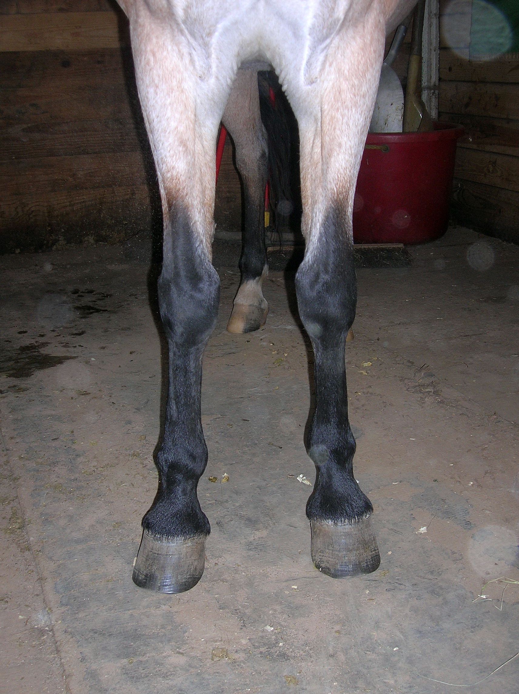 The forelegs of a bay roan Welsh Pony mare.